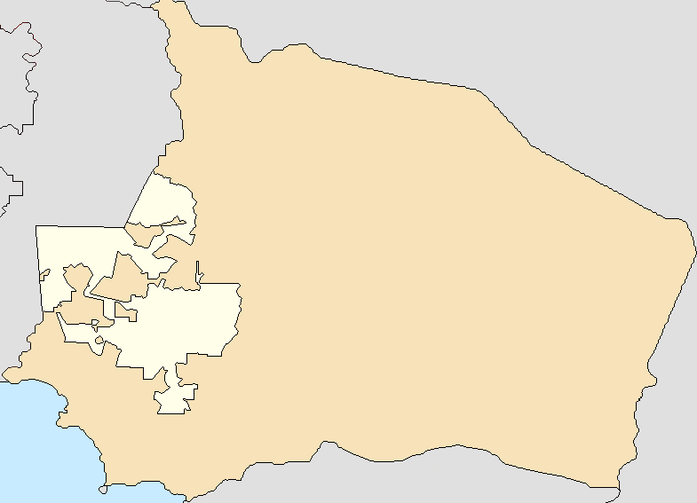 Location map of Seremban, the capital city of the Malaysian state of Negeri Sembilan.